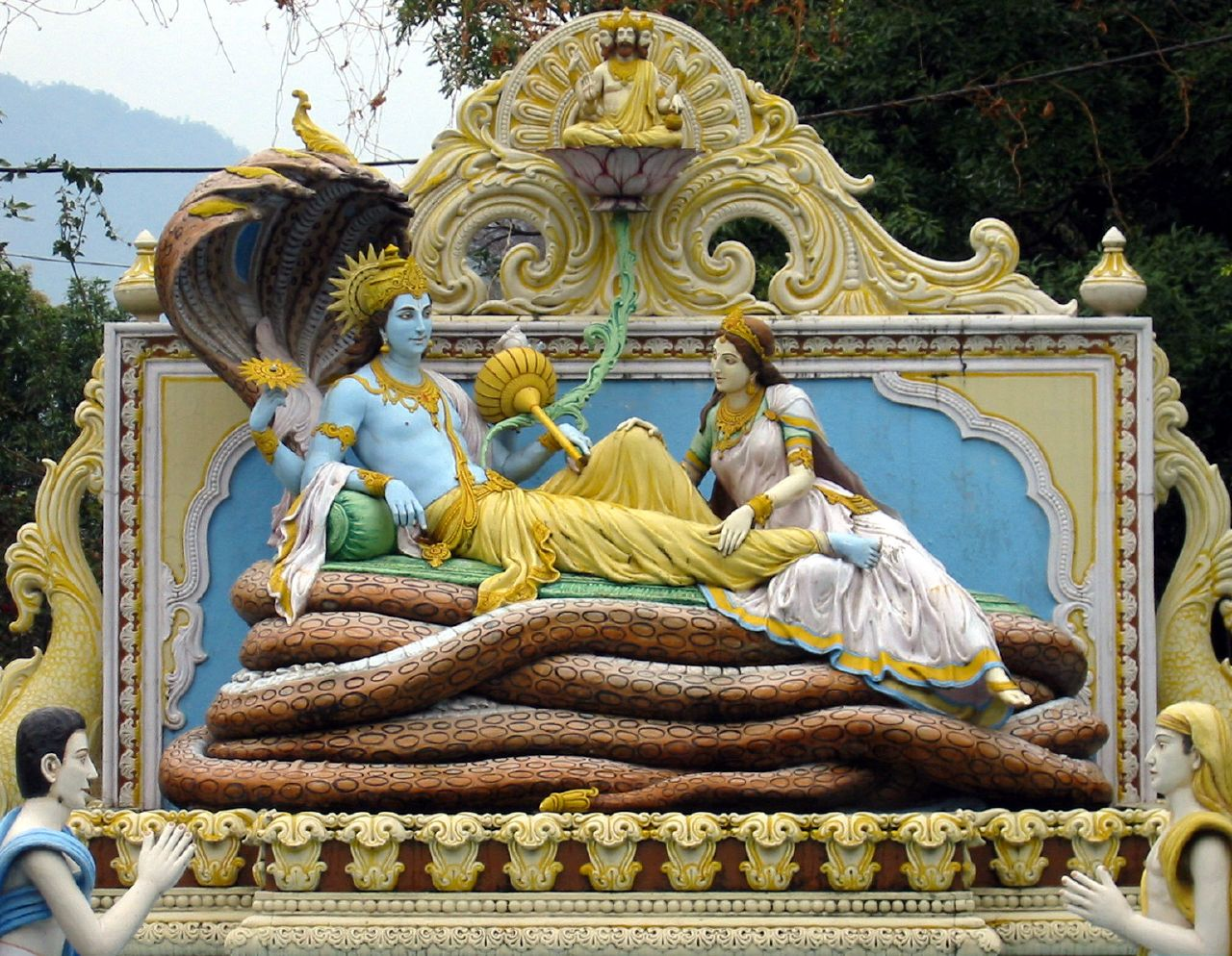 The Hindu God Vishnu with his consort Lakshmi resting on Sheshnag.